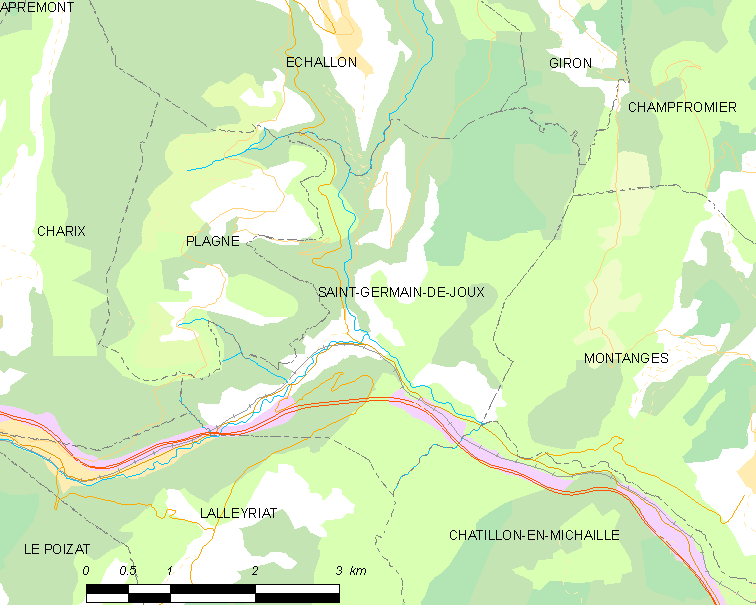 Map of French commune: Saint-Germain-de-Joux Map commune FR insee code 01357.png